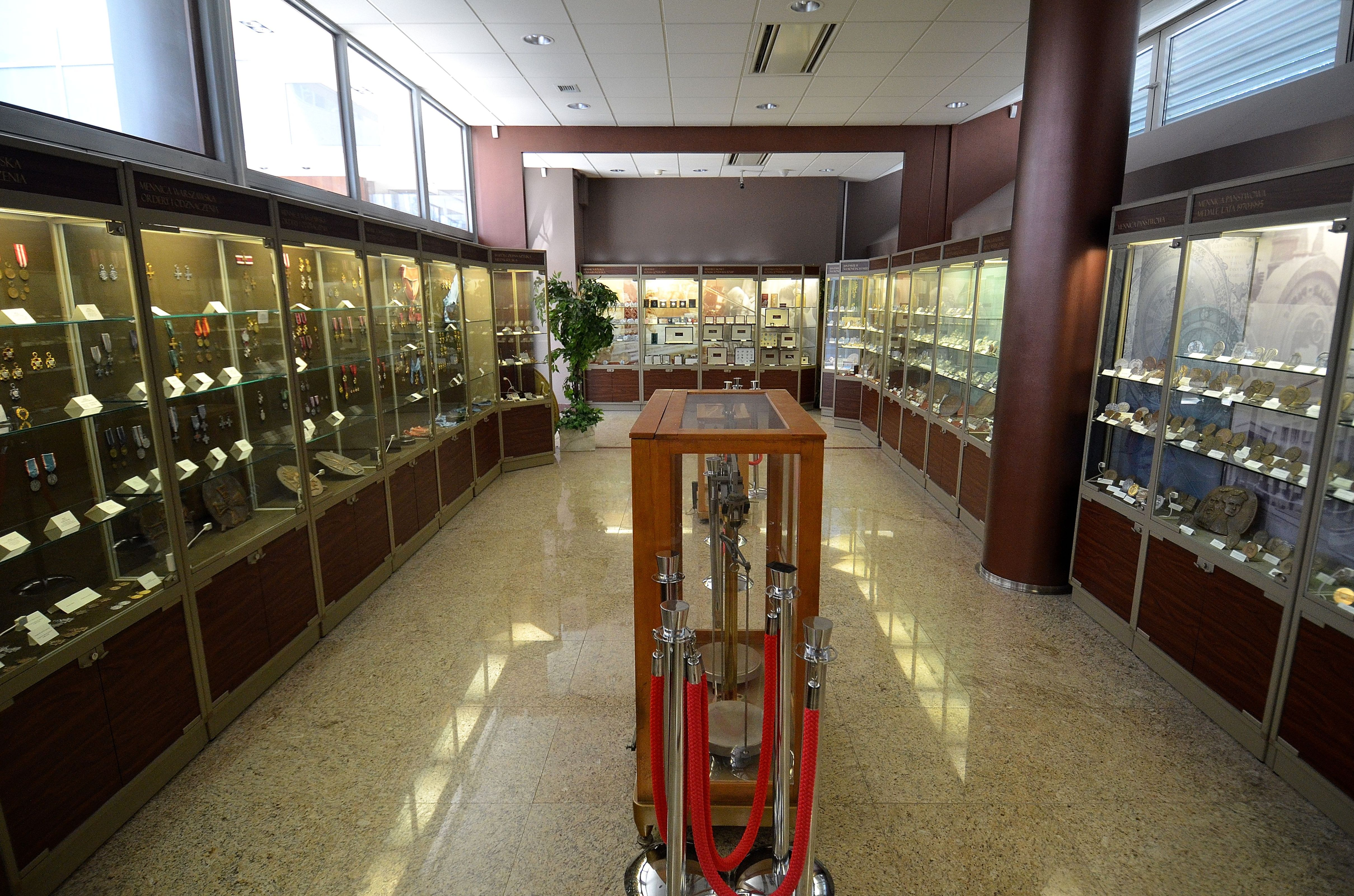 Numismatic Cabinet of the Mint of Poland at 11 Waliców Street in Warsaw